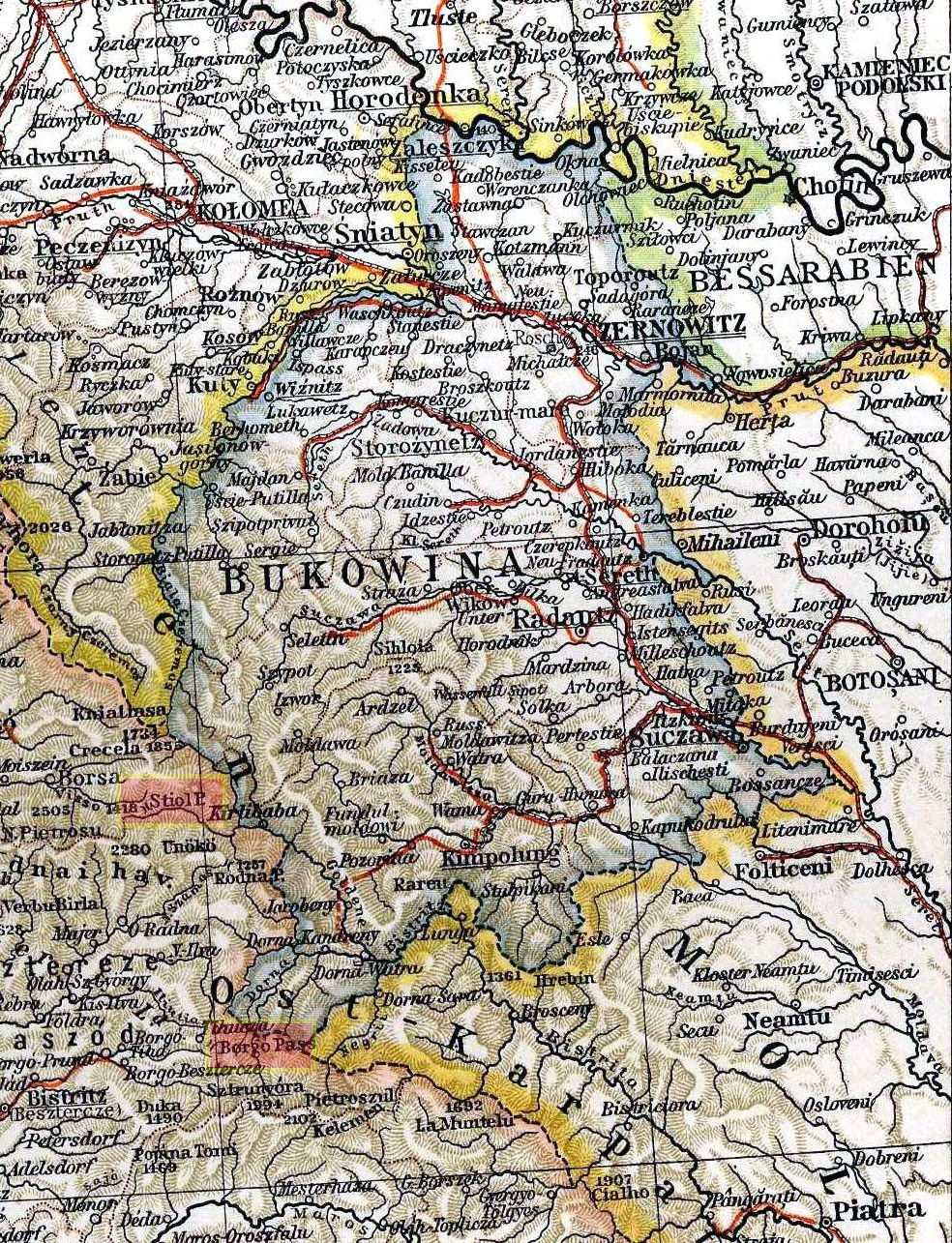 Historical map (1901) of Bokovina with Prislop- (bzw. Stiol) & Tihuța- (bzw. Borgo)-pass marked in red color Based on original file: Bukovina in 1901 "Andrees Handatlas", Velhagen & Klasing, 1901. Scan made by Wikipedia-User: Olahus Public Domain, because copyright expired